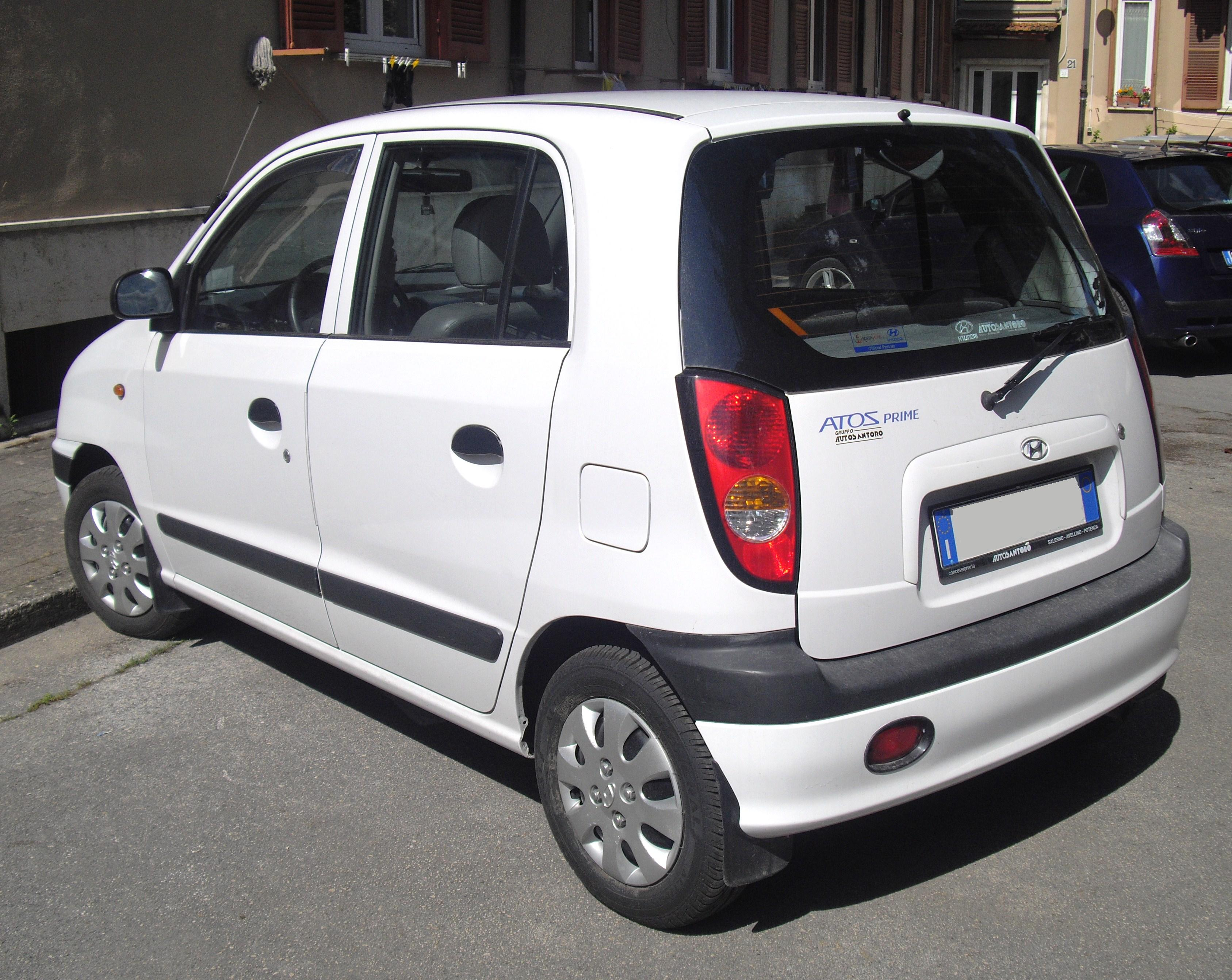 2001 Hyundai Atos Prime front